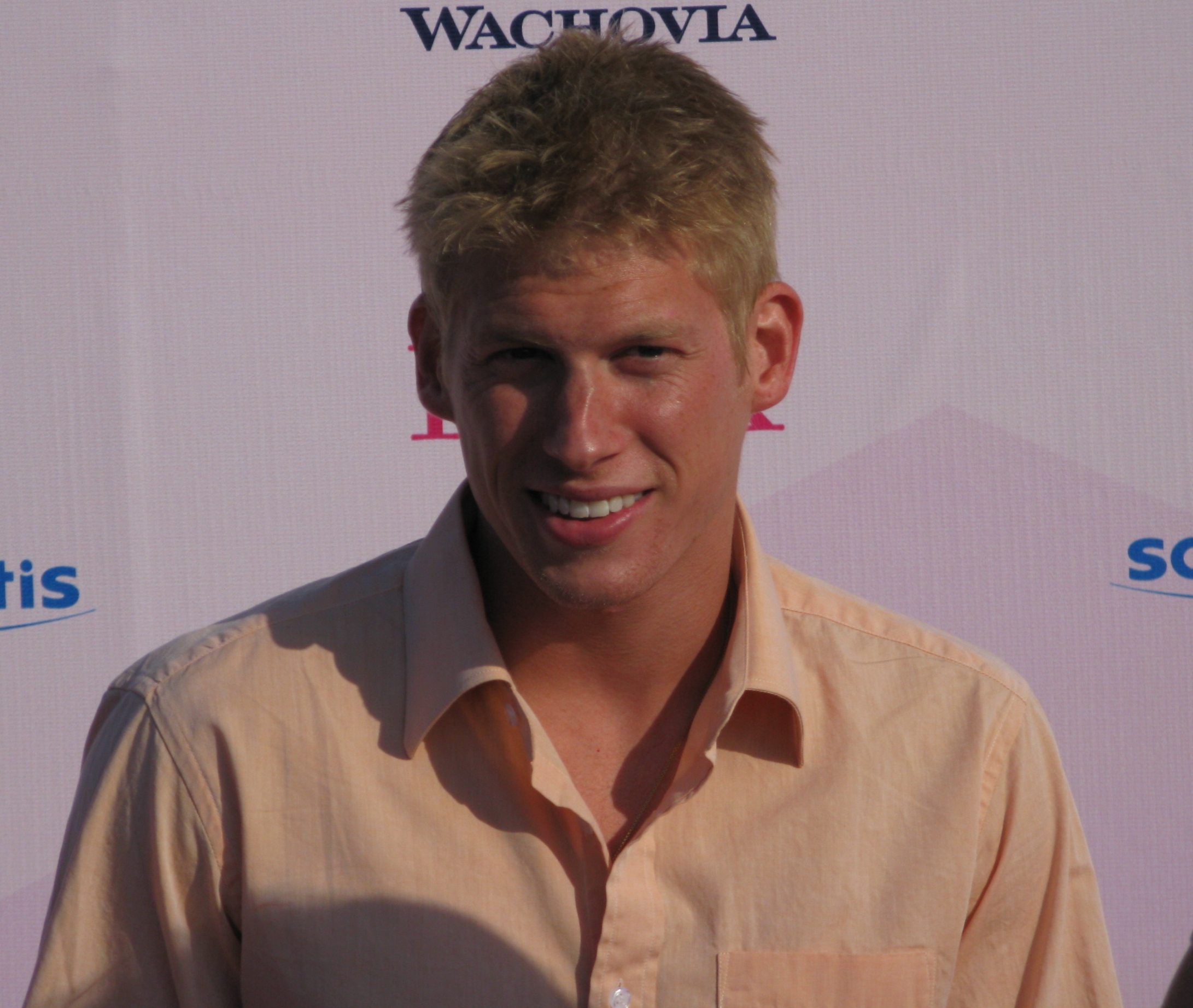 San Diego, California on September 14th, 2008 Justin Spring, on the "Pink Carpet" at the 2008 Frosted Pink With A Twist women's cancer benefit in San Diego, California on September 14, 2008